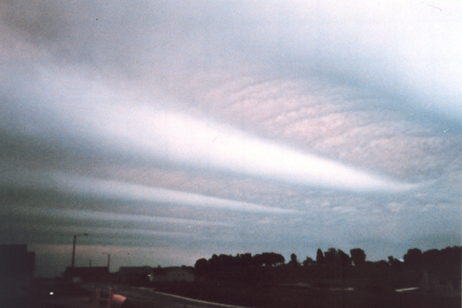 Clouds caused by gravity waves within meteorological disturbance. wave has a crest, the cloud forms.